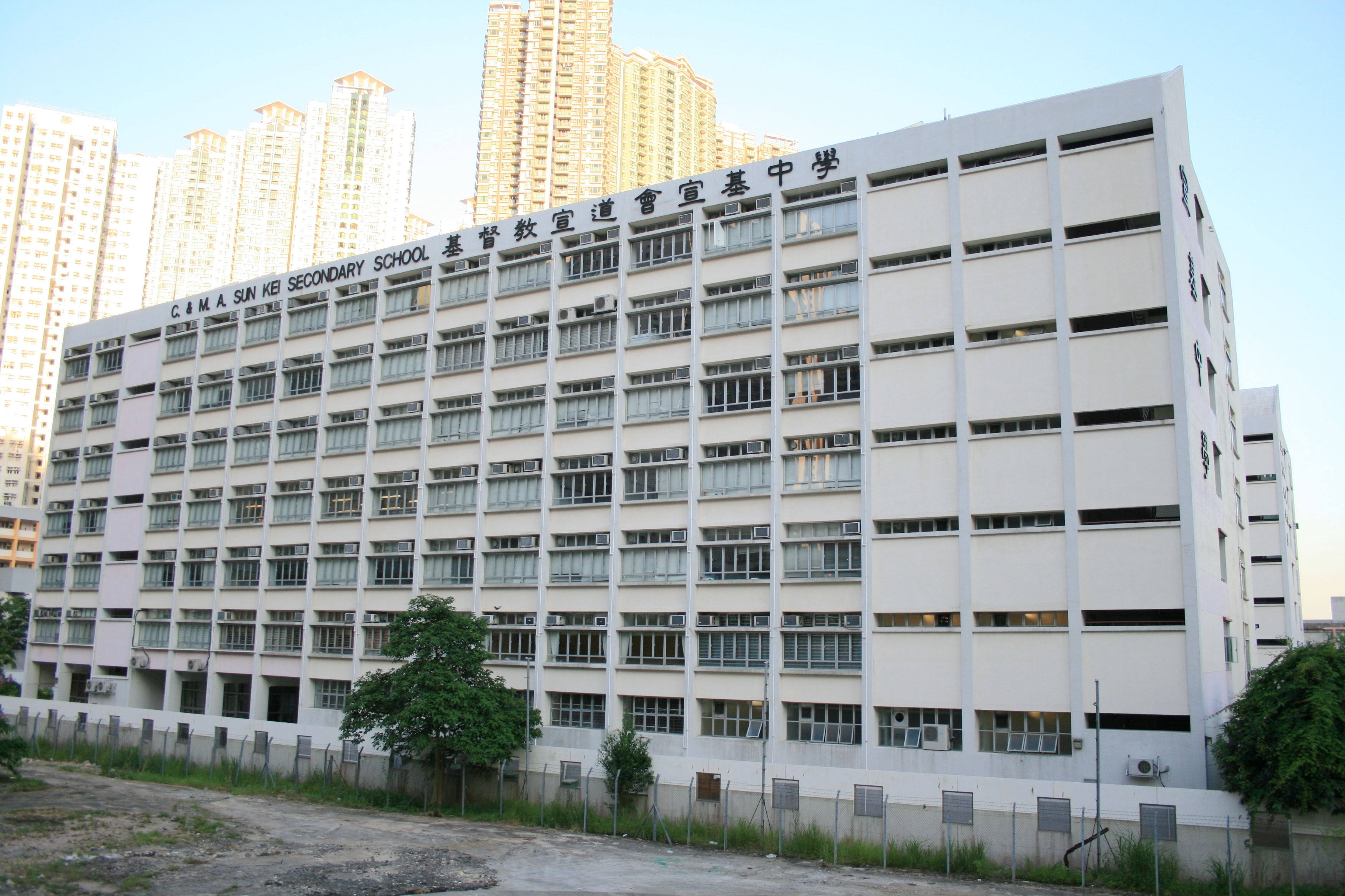 Sun Kei Secondary School 基督教宣道會宣基中學